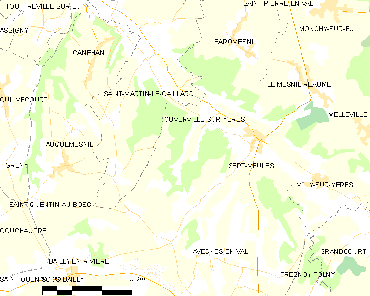 Map of French municipality Cuverville-sur-Yères